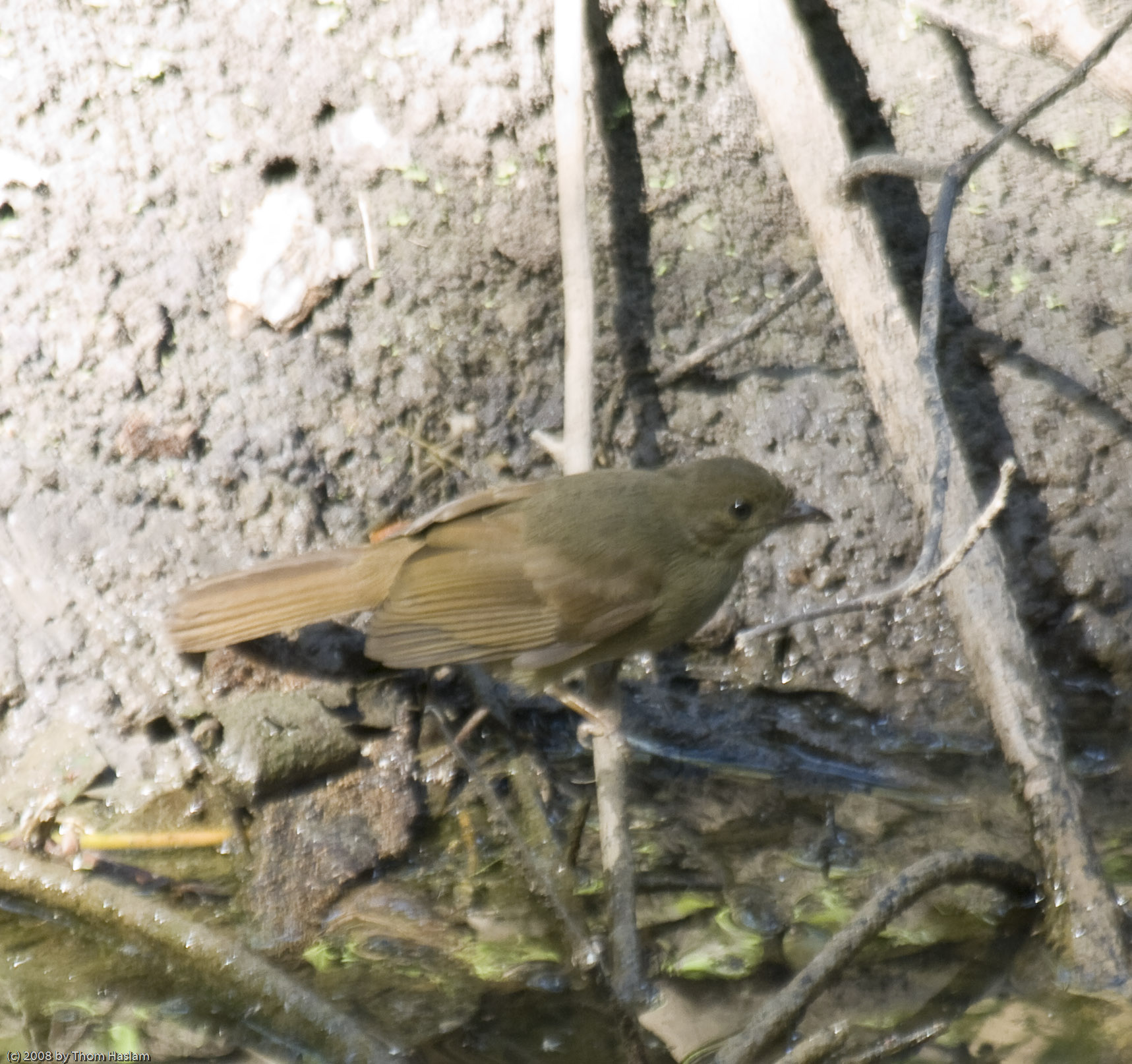 Little Greenbul (Andropadus virens), shot in Sinchu Alagi, the Gambia.